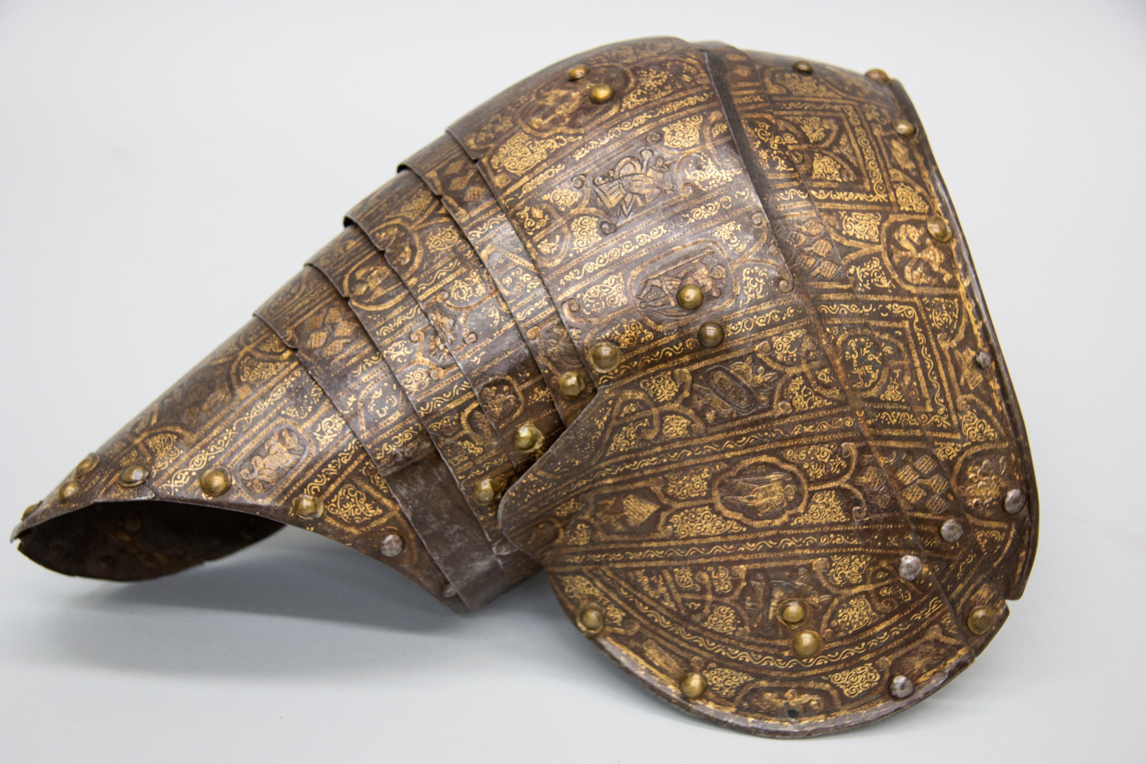 French; Pauldron and rerebrace; Armor Parts